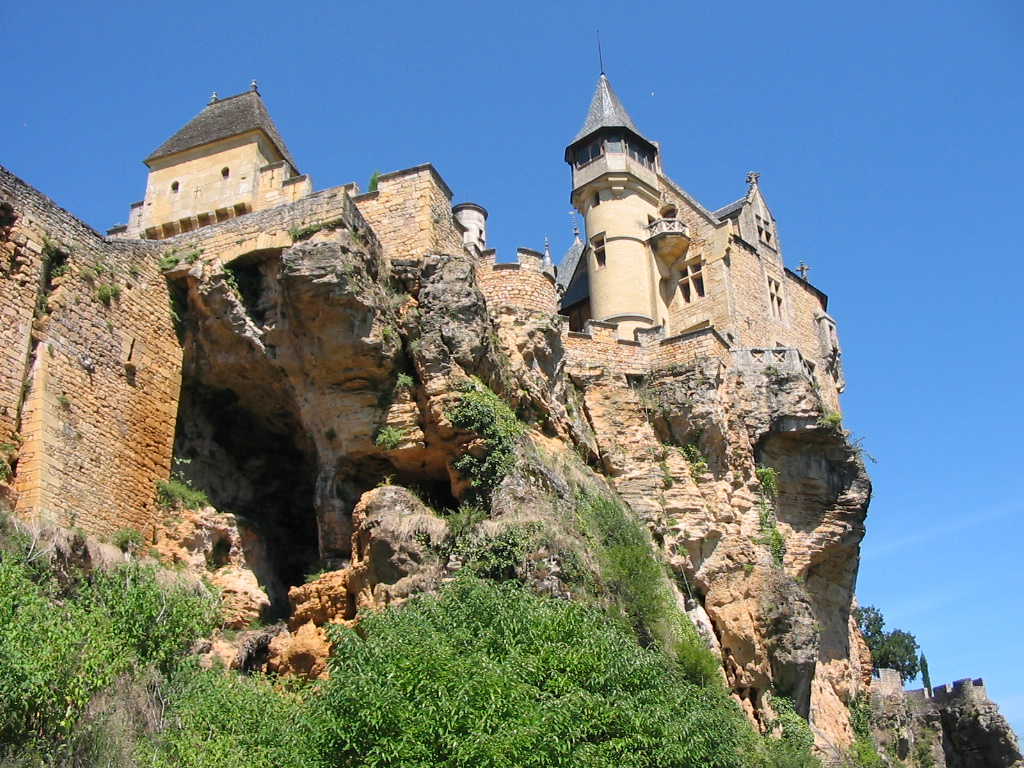 Montfort Castle, Vitrac, Dordogne, France.